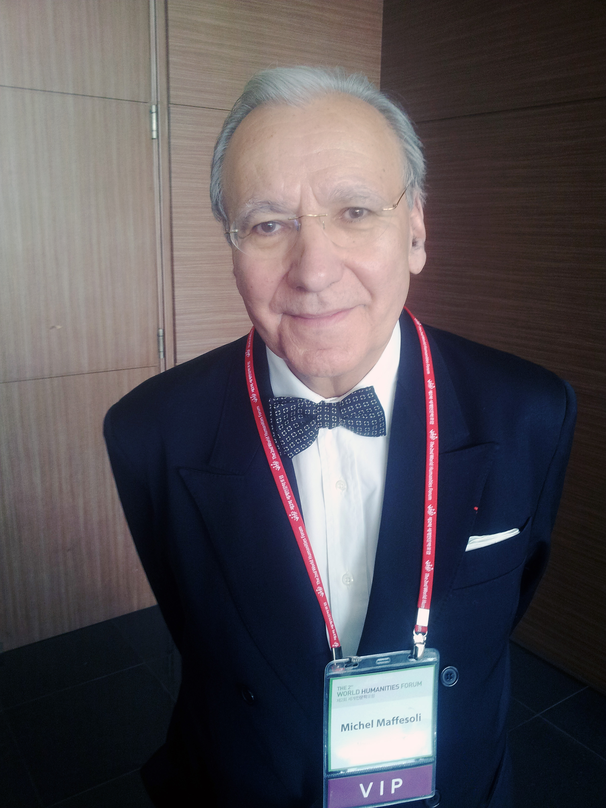 A photo of Michel Maffesoli, which was taken in the World Humanities Forum by UNESCO and Busan, and Ministry of Education, Science and Technology, from November to November 3, 2012, in Busan Exhibition and Convention Center.